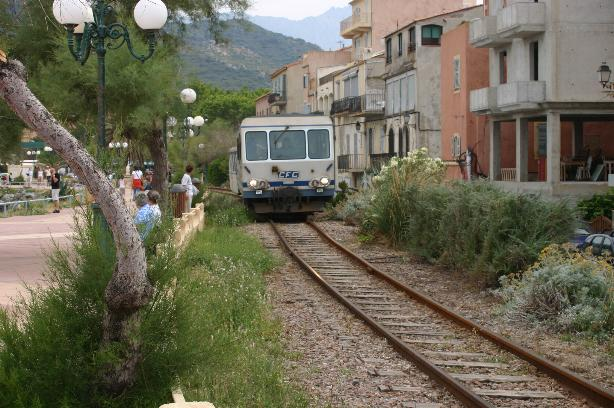 A train on Corsica, Ile Rousse France